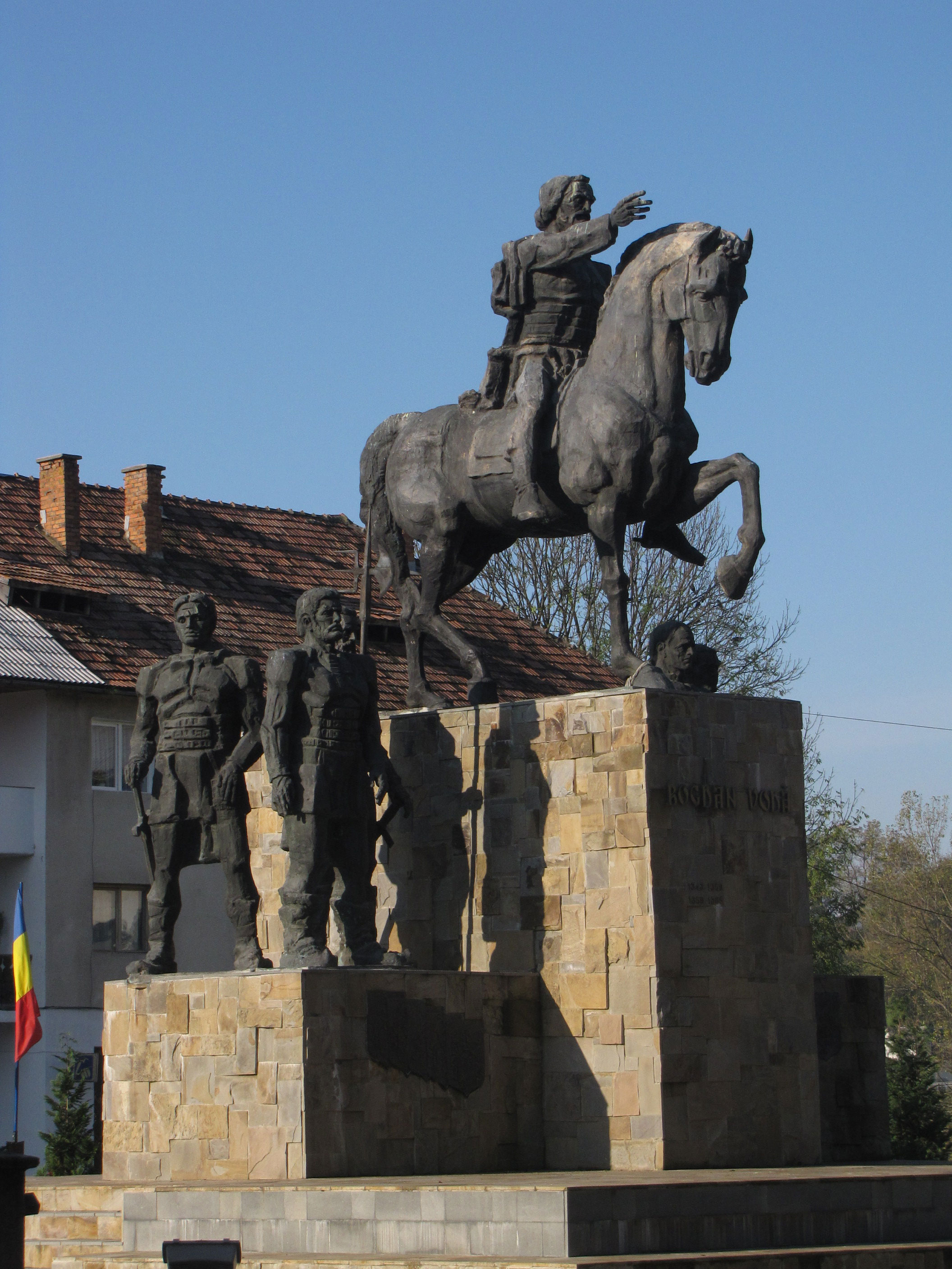 Bogdan Voda monument, in Bogdan-Voda, Maramureş, Romania